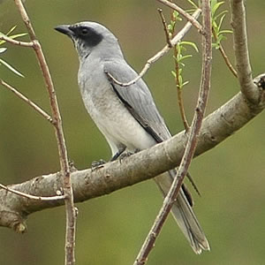 Bird, Black-faced Cuckoo-shrike, Coracina novaehollandiae